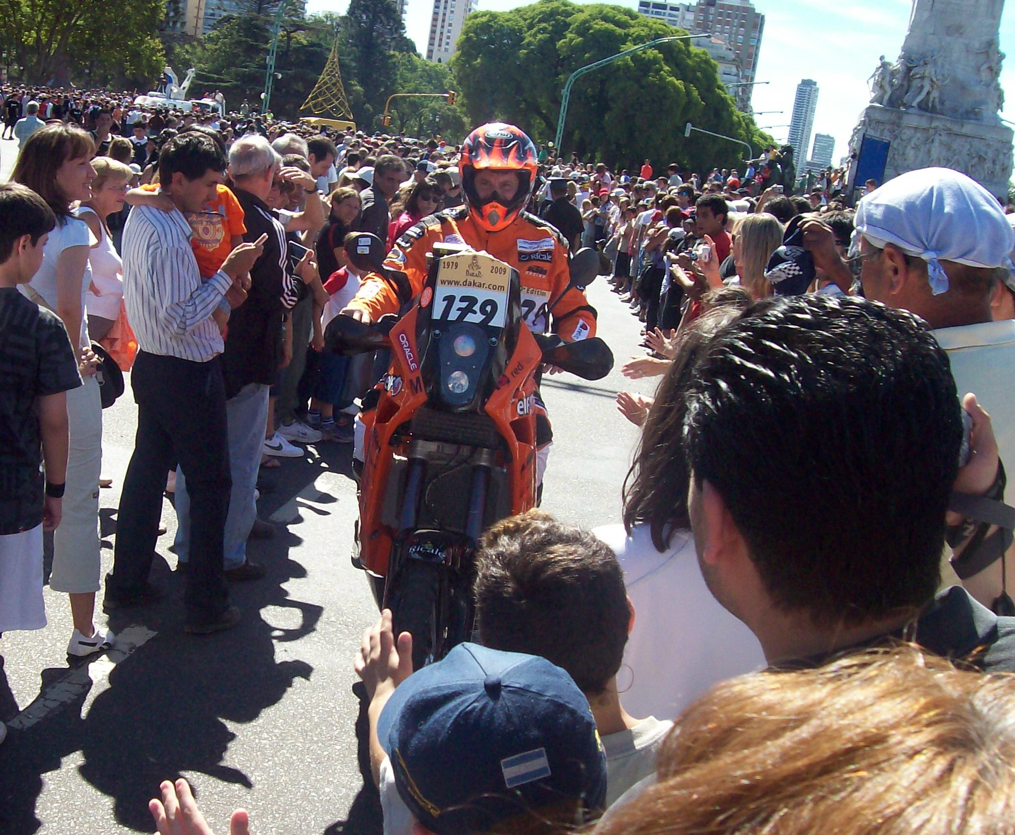 Motorcycle. Critian Romero, argentine, Dakar Rally 2009, Buenos Aires Argentina